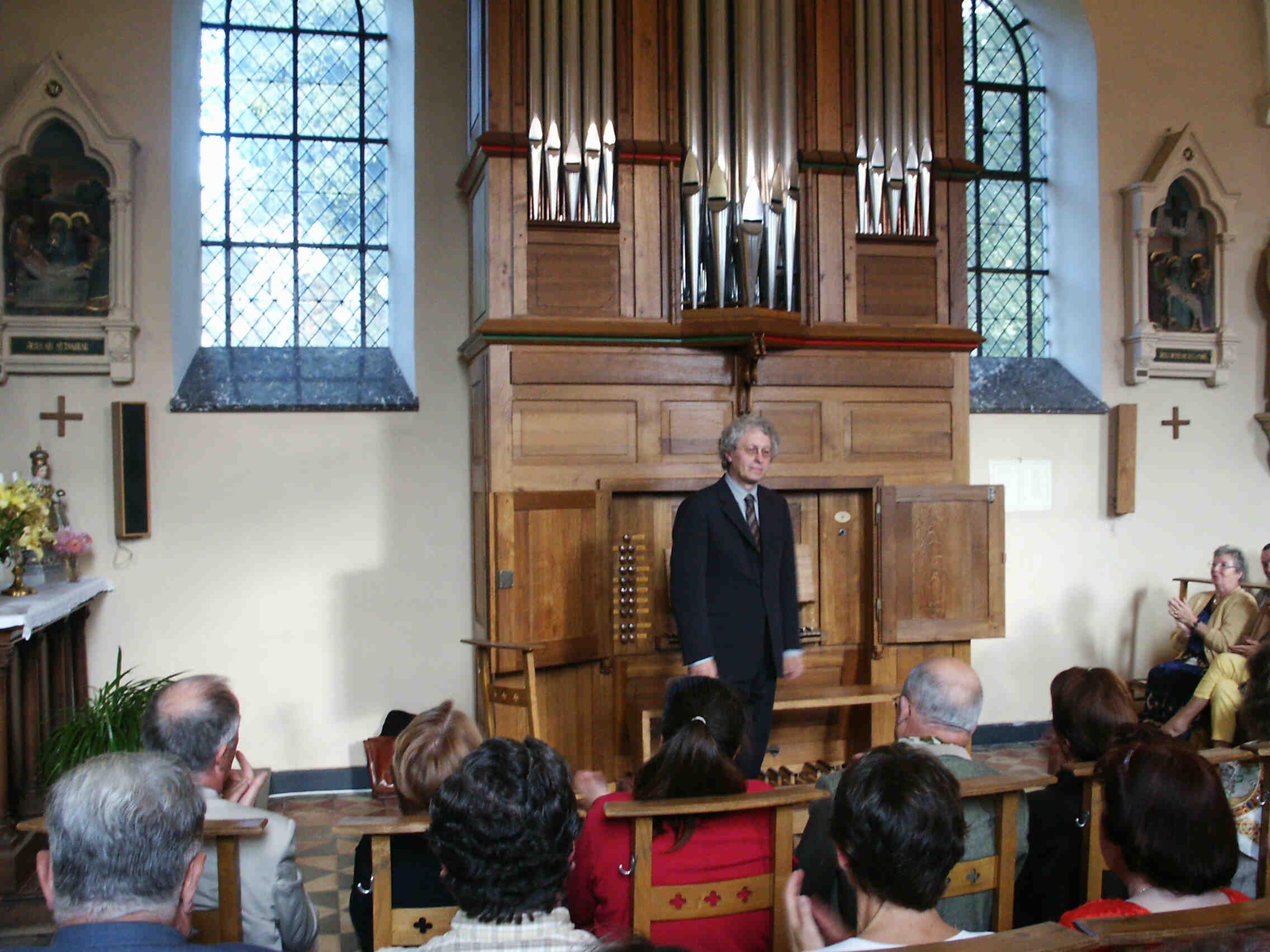 Bernard Foccroulle at the organ at the start of his concert of 19-09-2004. Photo téléchargée par User: Les Meloures avec la permission du propriétaire de la page-source. Copyrights photo: hans hilberink - Bohan sur Semois - Belgium. - pe1mmk.